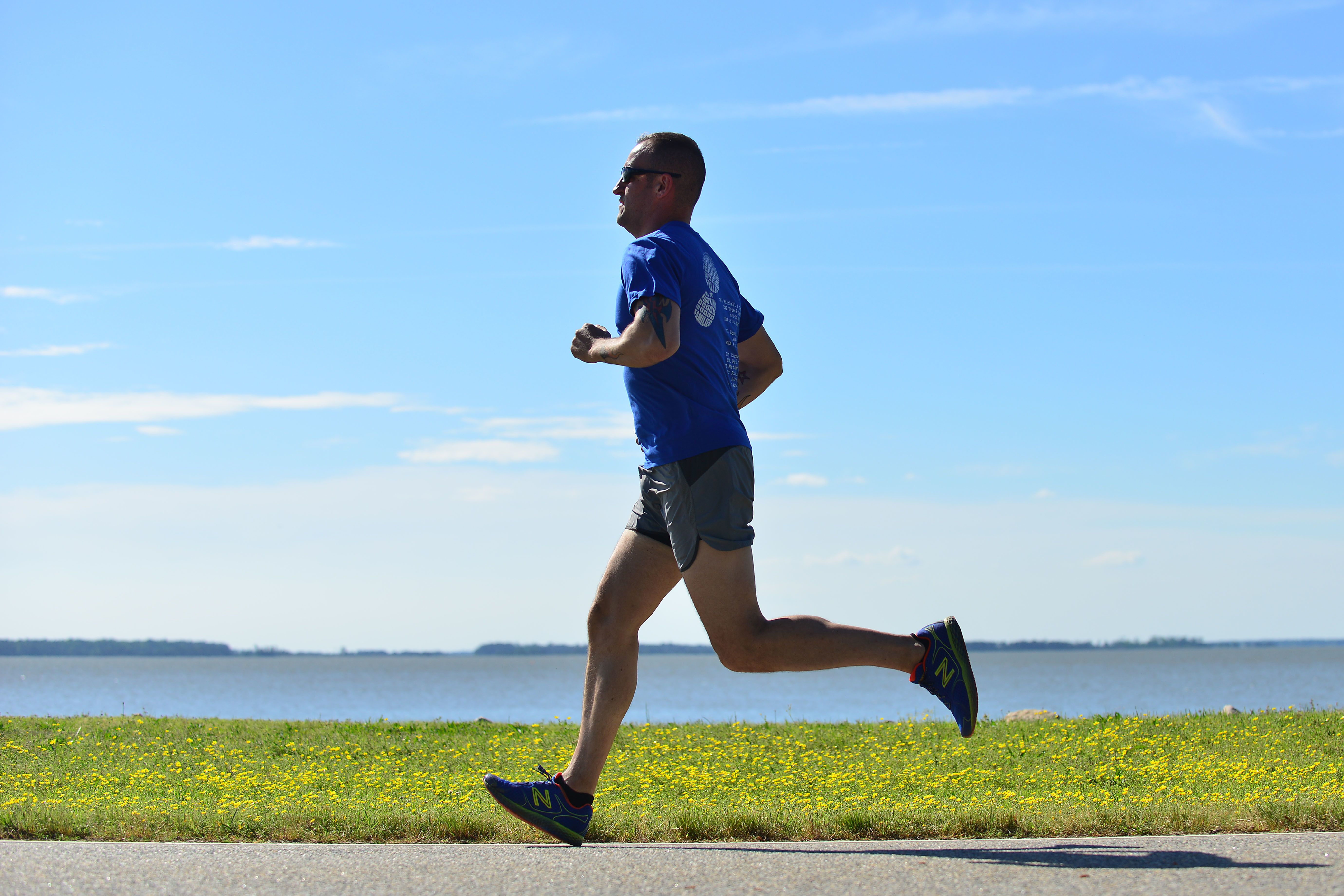 U.S. Army Staff Sgt. Jeffery Lewis, Charlie Company, 1st Battalion, 222nd Aviation Regiment platoon sergeant, runs at Fort Eustis, Va., May 12, 2015. Lewis runs marathons with the Wear Blue Run to Remember group in honor of fallen soldiers and their families. (U.S. Air Force photo by Staff Sgt. Natasha Stannard) Unit: 633rd Air Base Wing DVIDS Tags: Oregon; leadership; Hampton Roads; Kiowa; mentorship; Fort Eustis; fitness; military; running; US Army; Army; training; Medford; OH-58 Kiowa helicopter; Wear Blue Run to Remember; WBRTR